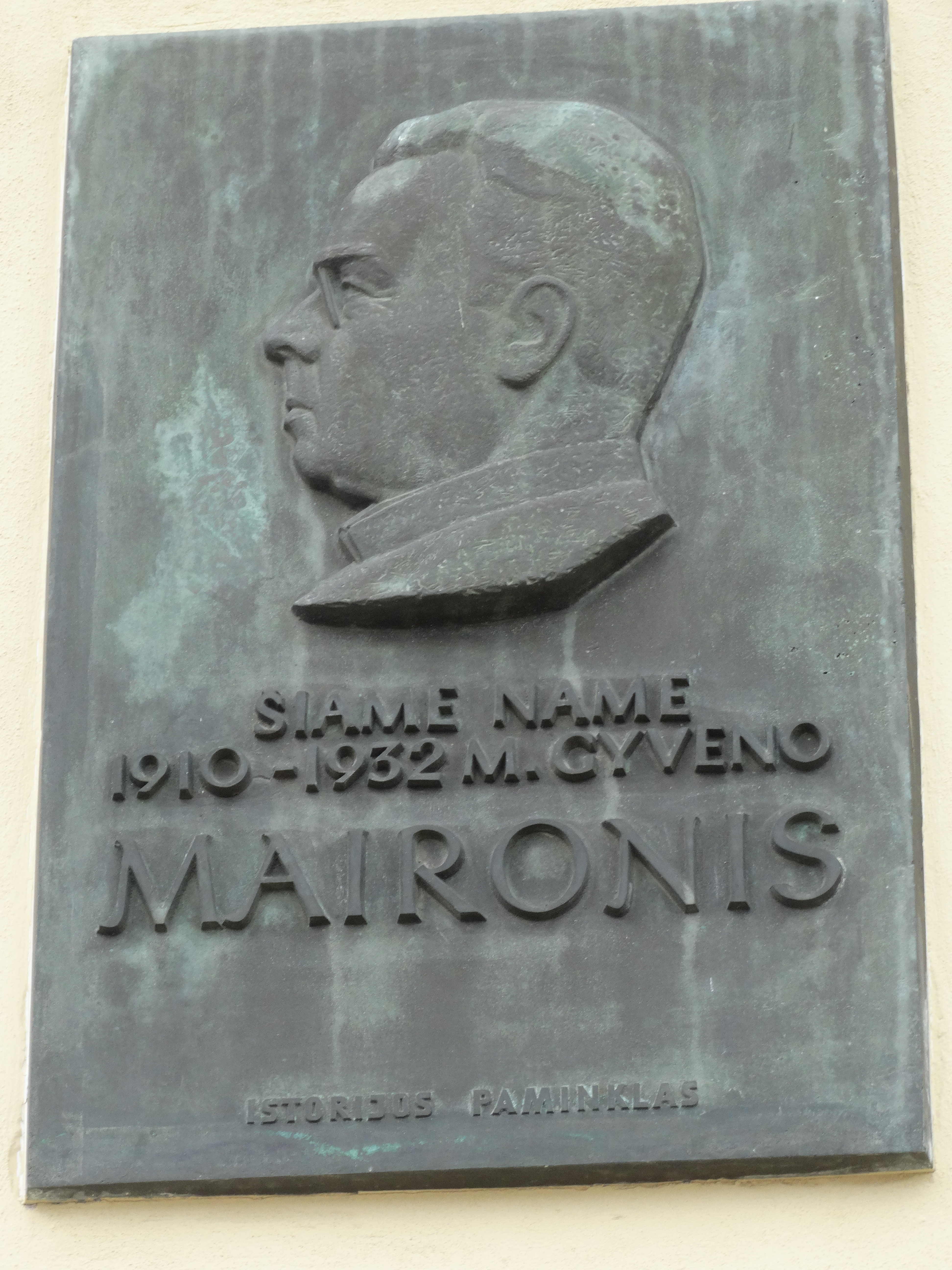 Memorial plaque to Maironis, Kaunas, Lithuania